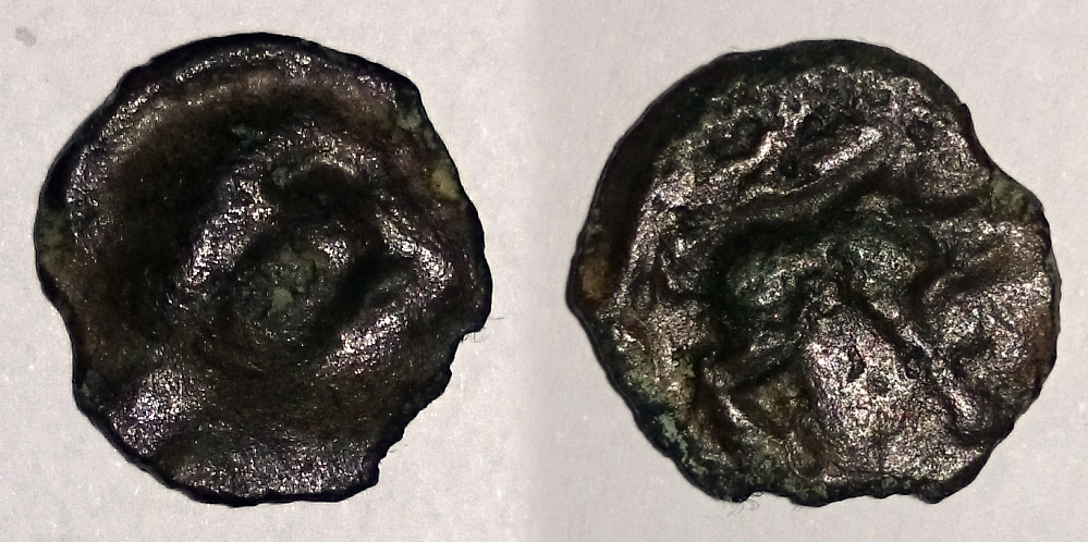 Gaulish Coin with helmet head and boar. BN.4021-4022, DT. S.3505. Usually given to the Bituriges people.